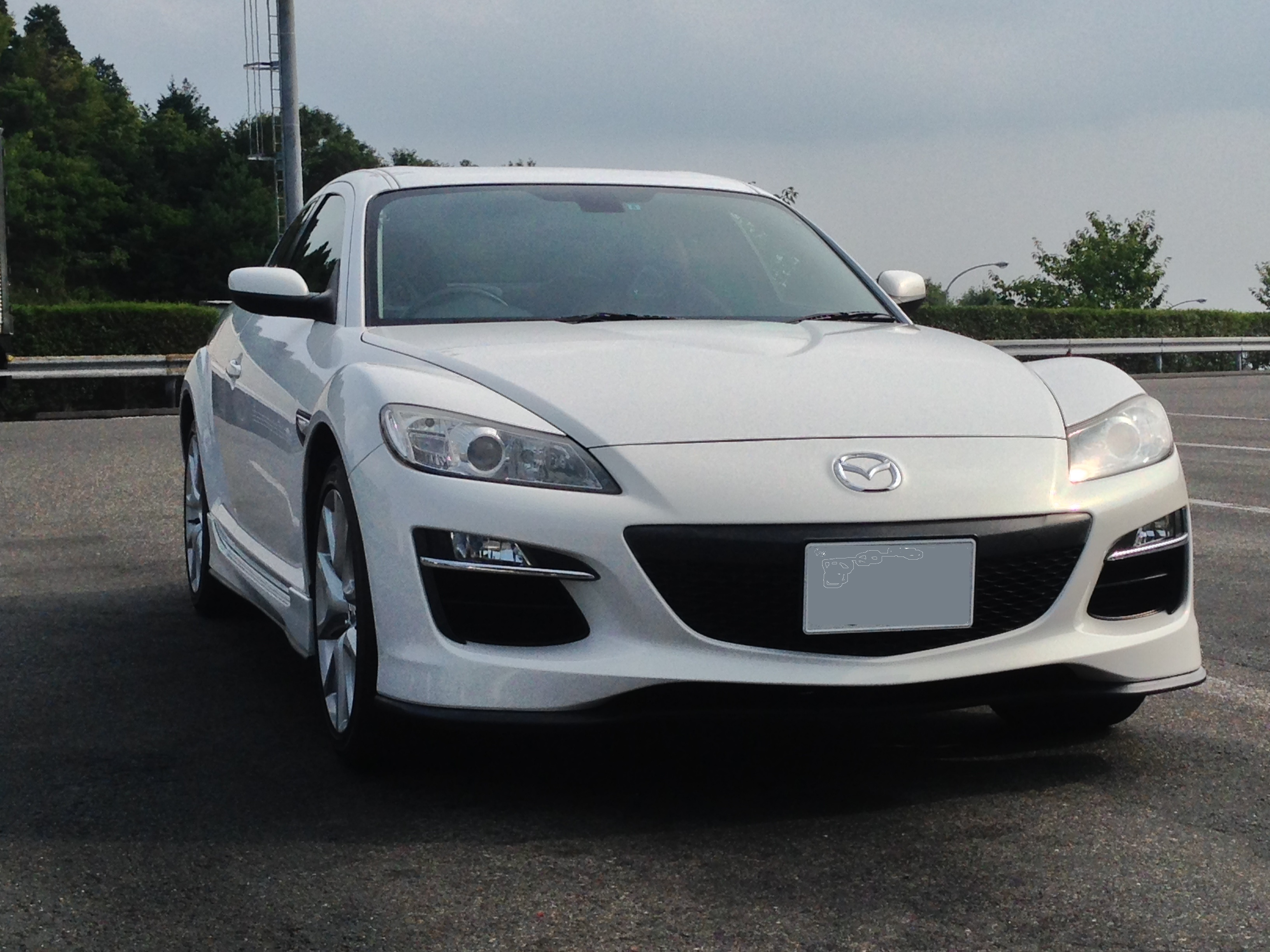 RX-8 2010Y-MODEL TYPE-S